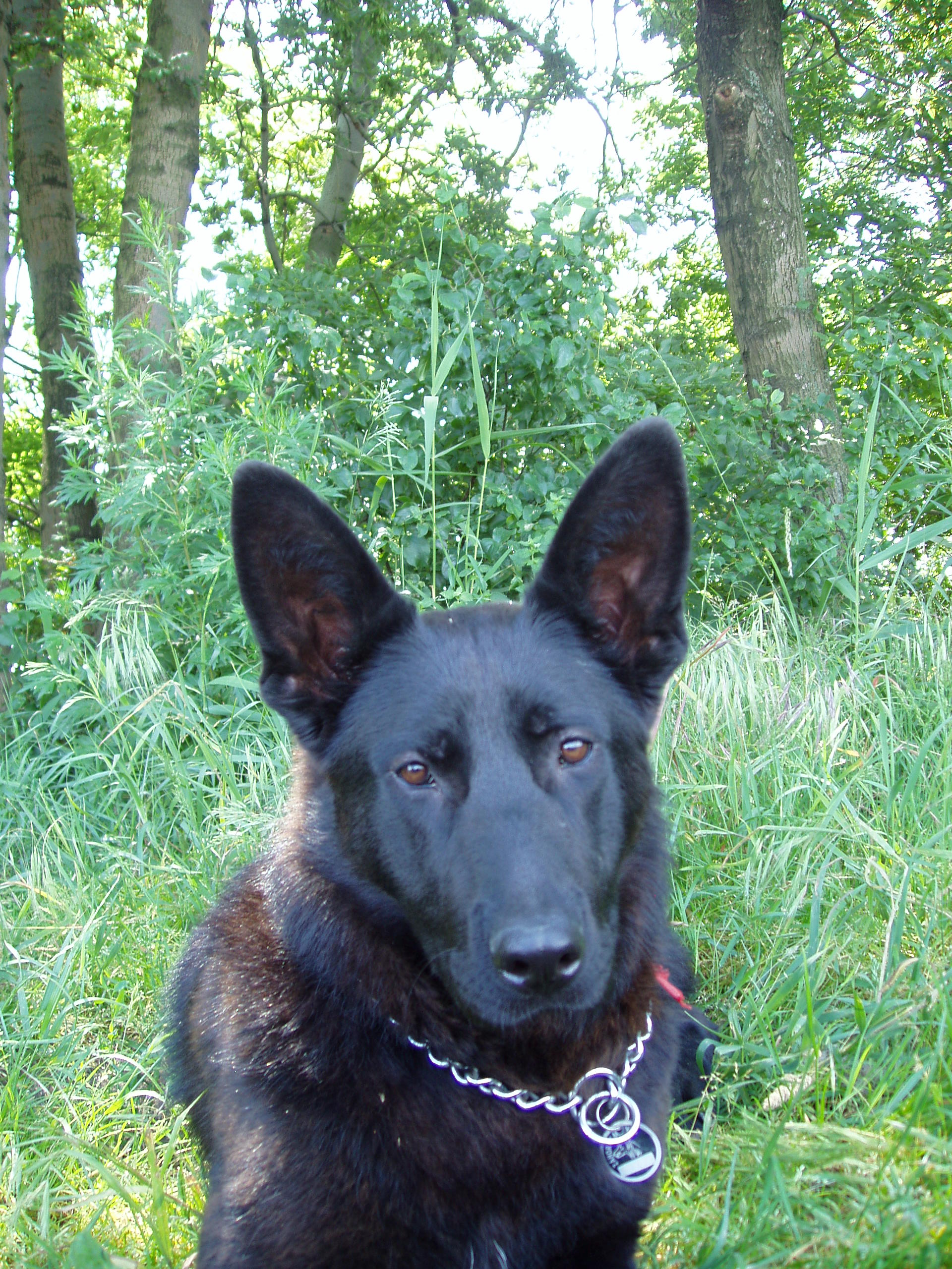 cerny šery